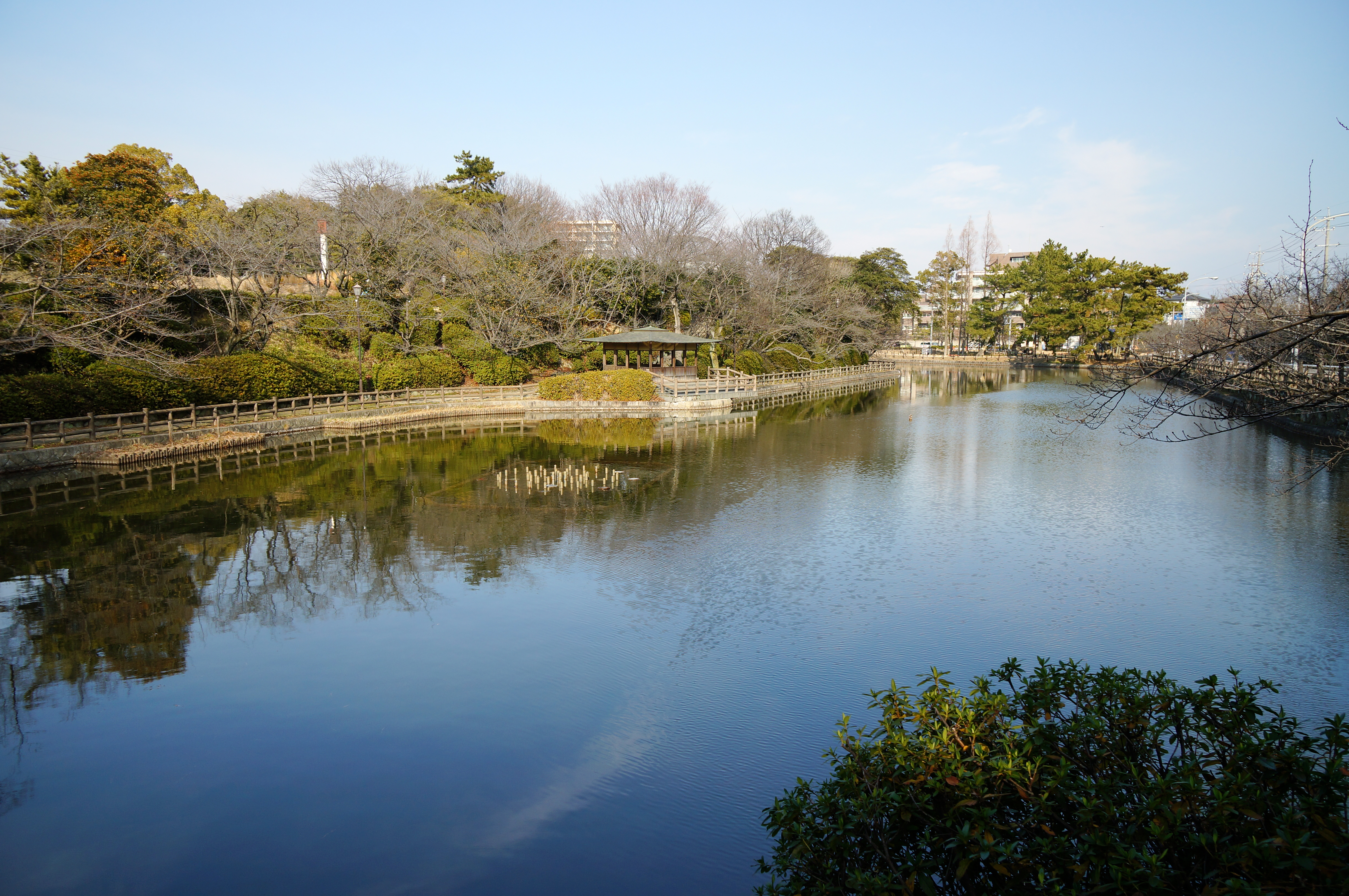 Kijo Park in Kariya, Aichi prefecture, Japan.